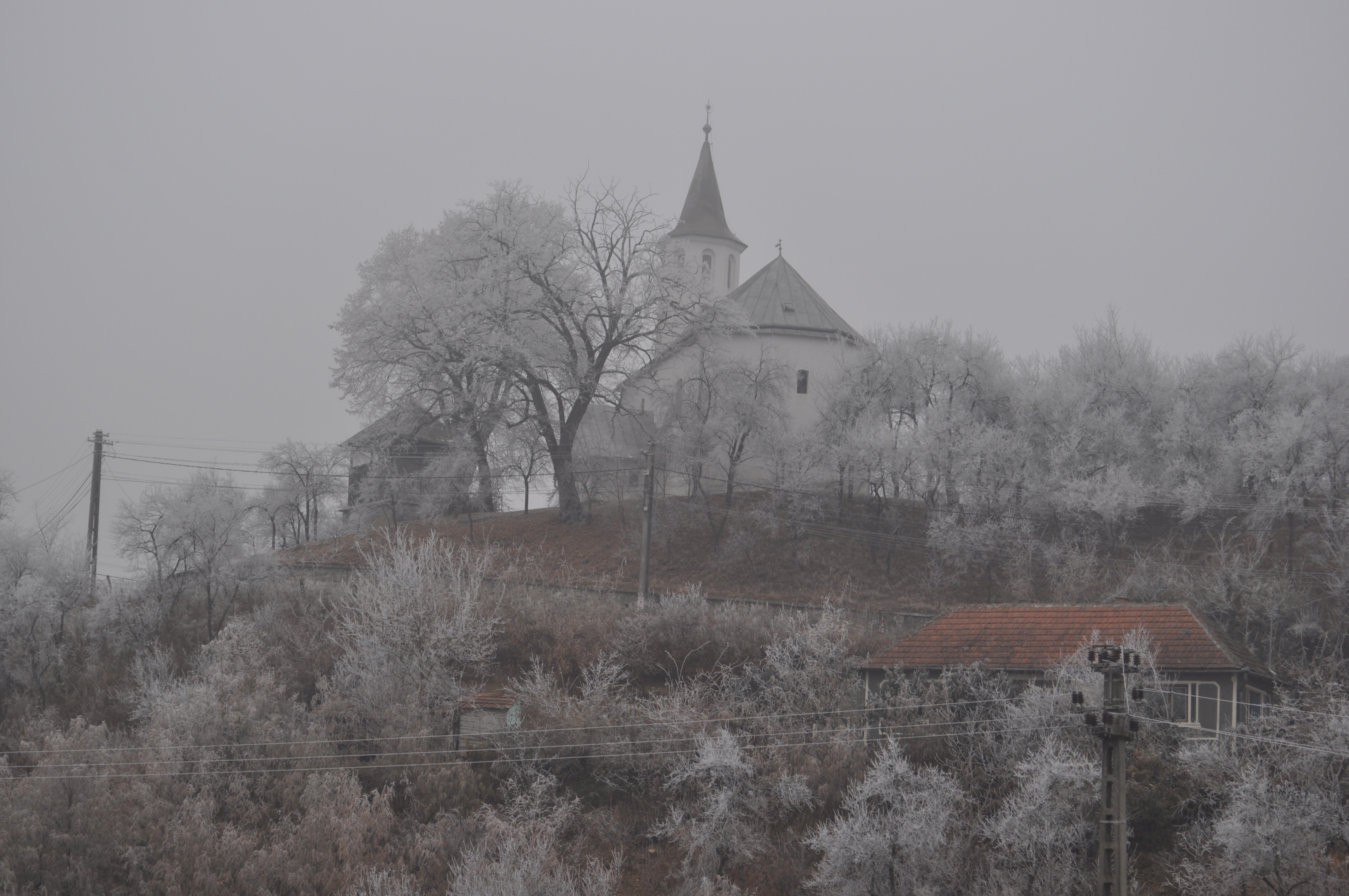 Reformed church in Uileacu Şimleului was built in the 13th century. It is a fortified church. The belltower was built in 1823 beside the church.